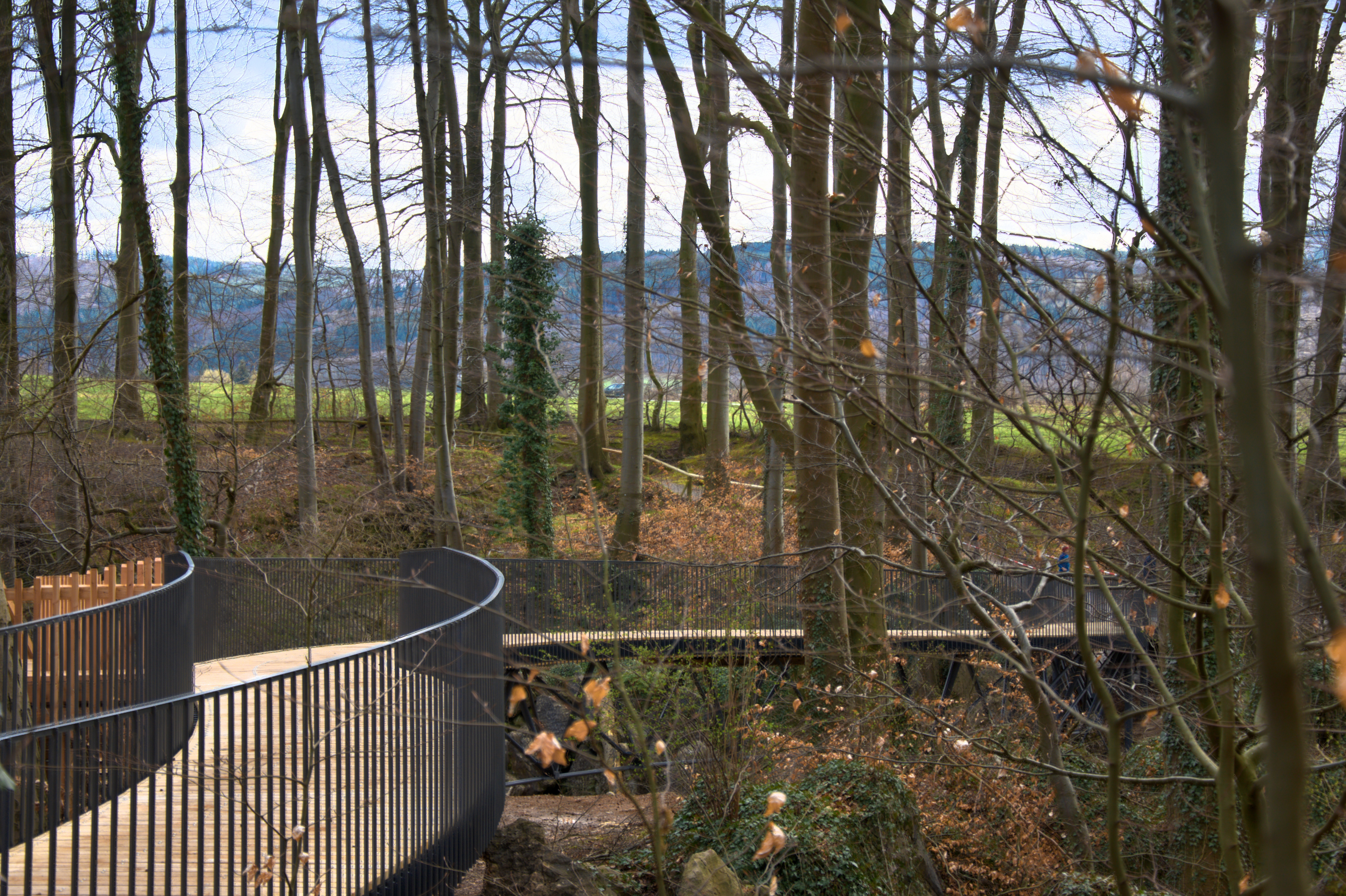 Pathway through the Felsenmeer in Hemer, Germany